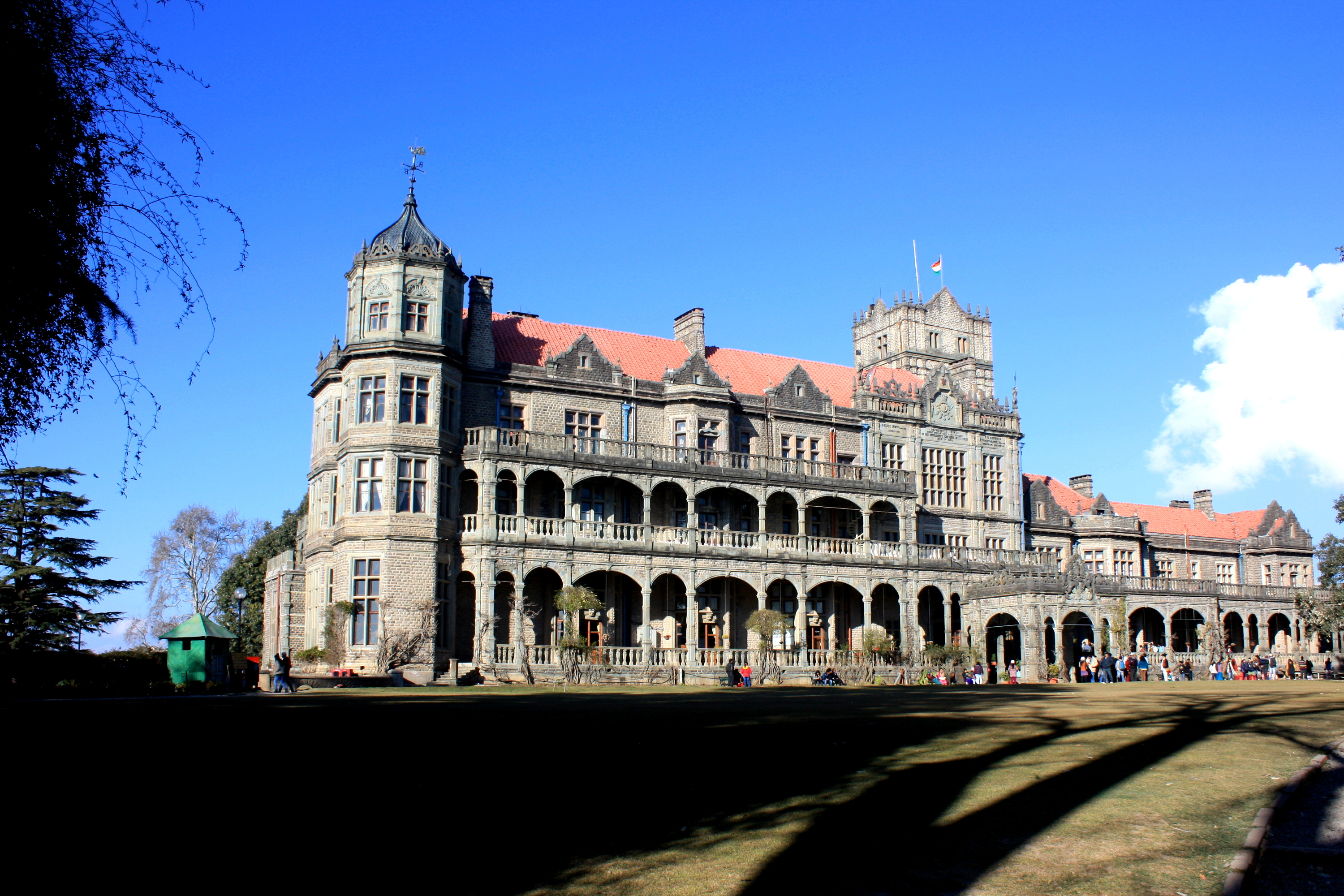 The Rashtrapati Niwas, also known as Viceregal Lodge, is located in Shimla, Himachal Pradesh and is currently in use as the Indian Institute of Advanced Study (IIAS).